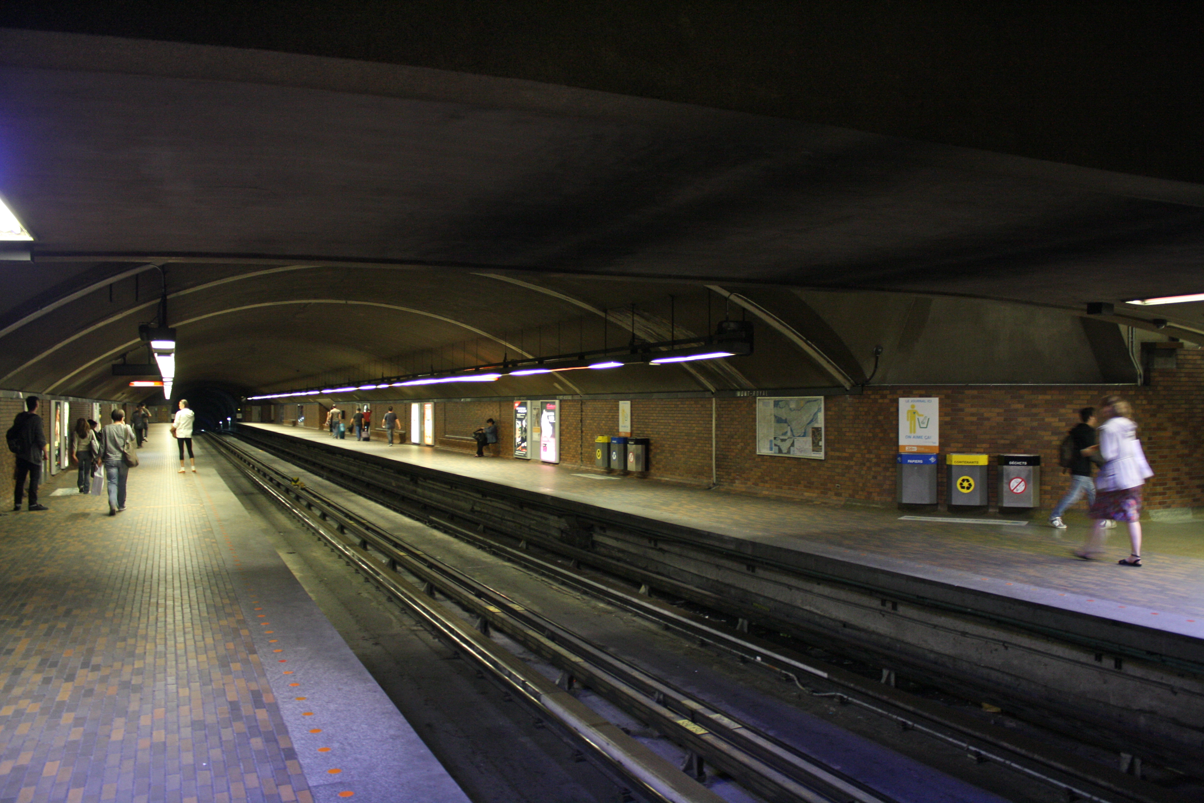 Mont-Royal Metro station platform.